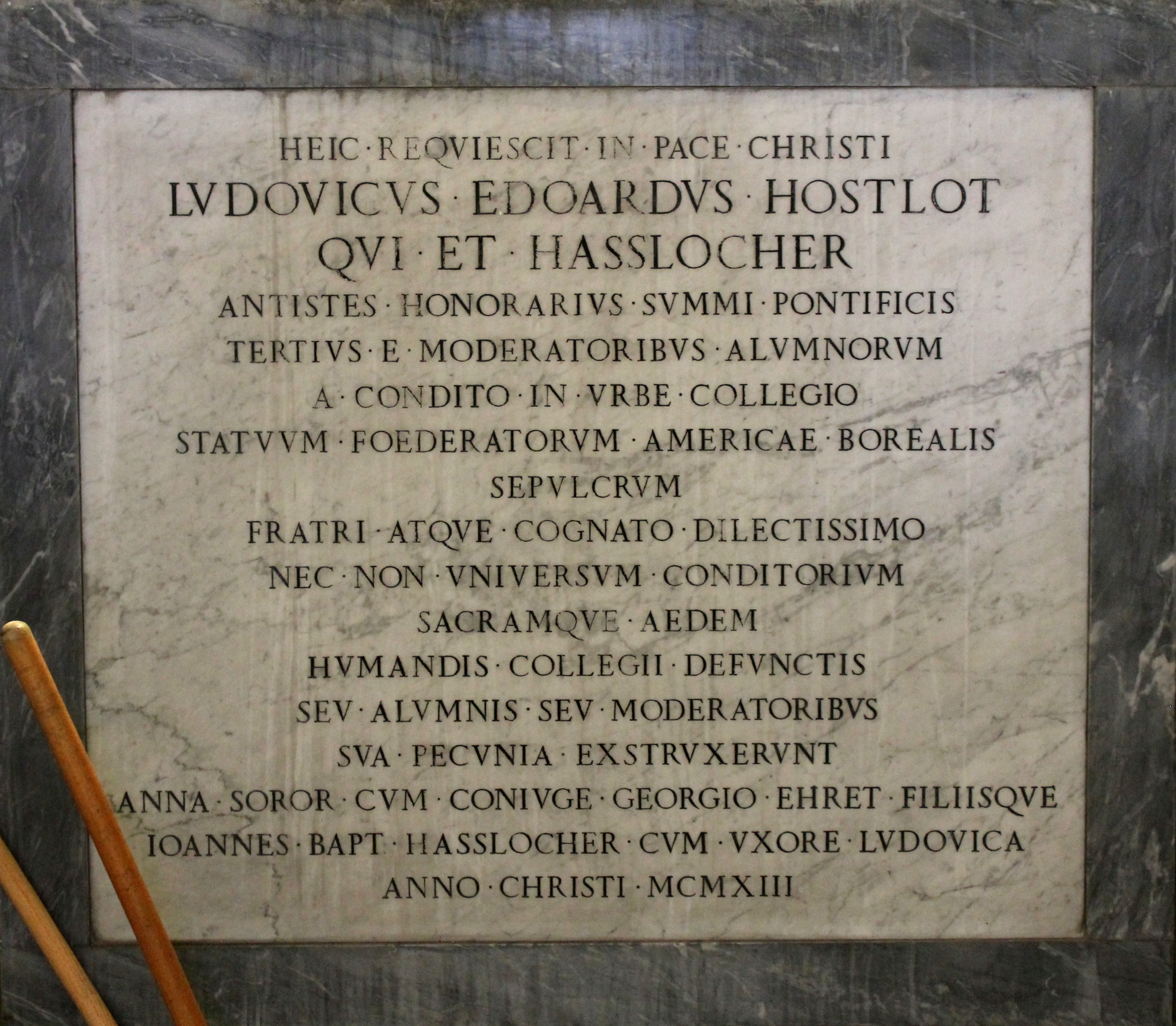 Latin inscription in the mausoleum of the North American College in Rome's Campo Verano cemetery. It records the donation of the chapel by Monsignor Louis Hostlot's family.